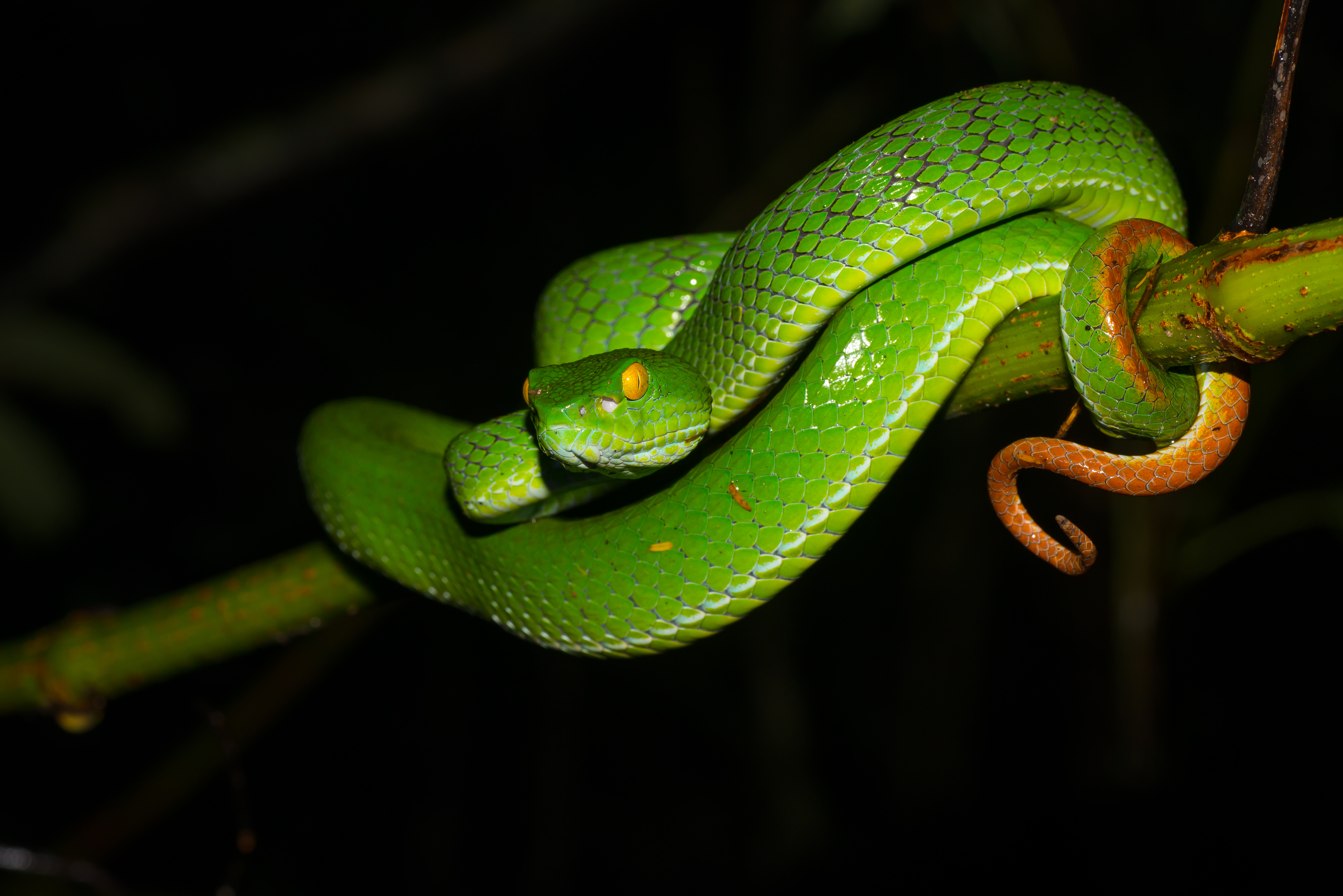 Trimeresurus macrops, Large-eyed pit viper (adult) - Khao Yai National Park. Photo by Thai National Parks